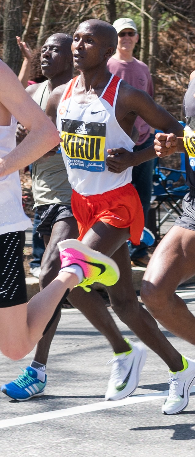 Approximately Mile 12 of the 2017 Boston Marathon.